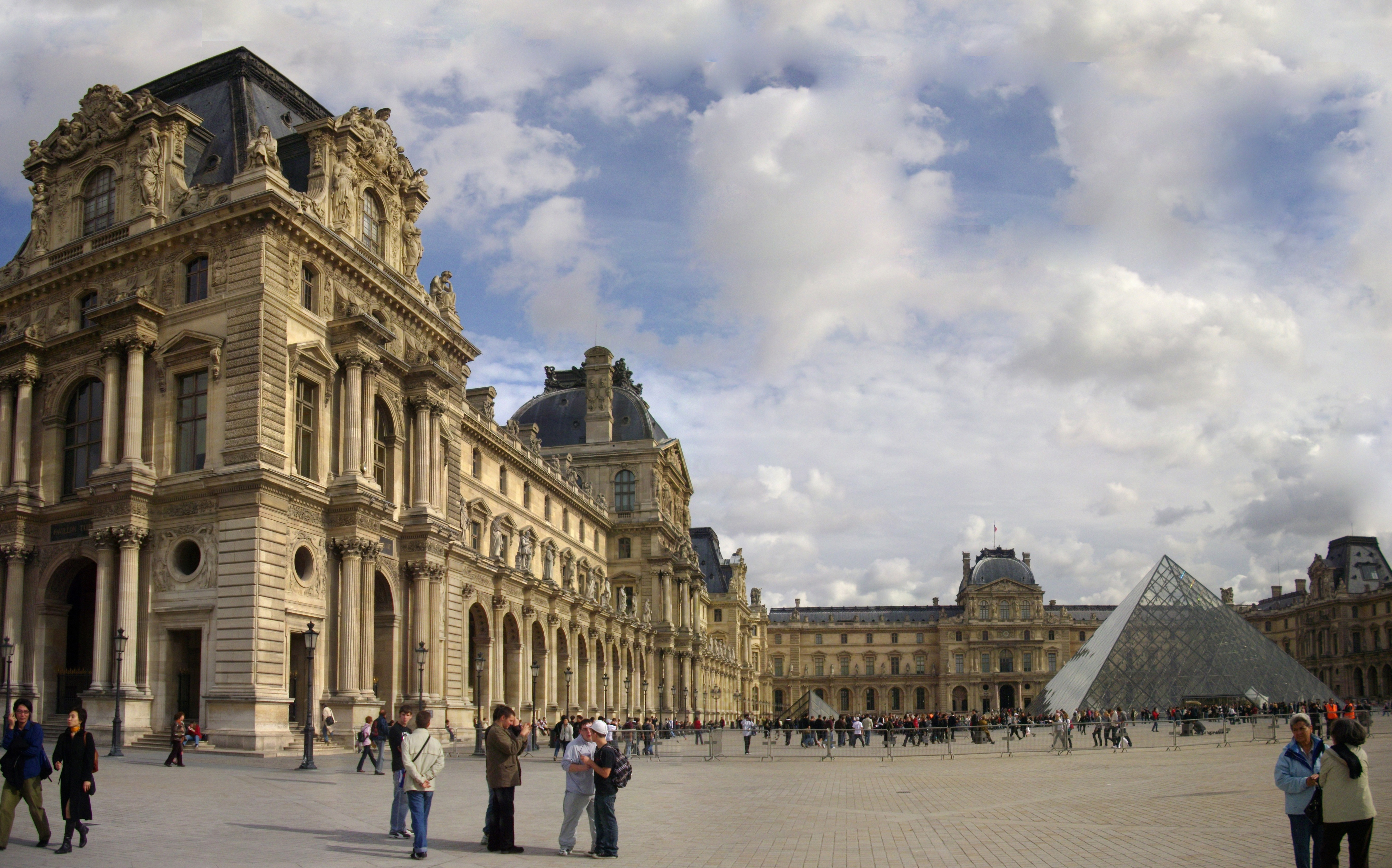 Napoleon III apartments - Richelieu wing of the Louvre